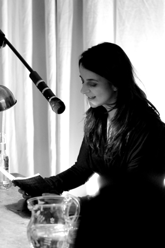 Esma Annemon Dil, book tour for "Foreign Affairs"